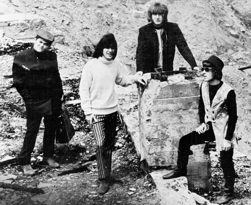 Trade ad for The Paupers's single "Magic People"/"Black Thank You Package".To better adapt it to his respective Wikipedia article, the ad was cropped and cleaned in a graphics editing program. The original can be viewed at the source below.